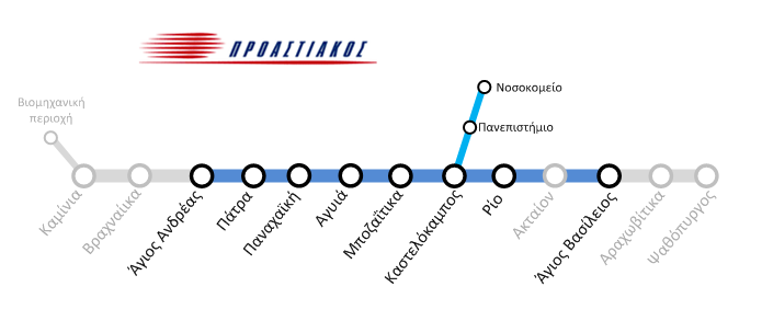 Patras Suburban Railway Map